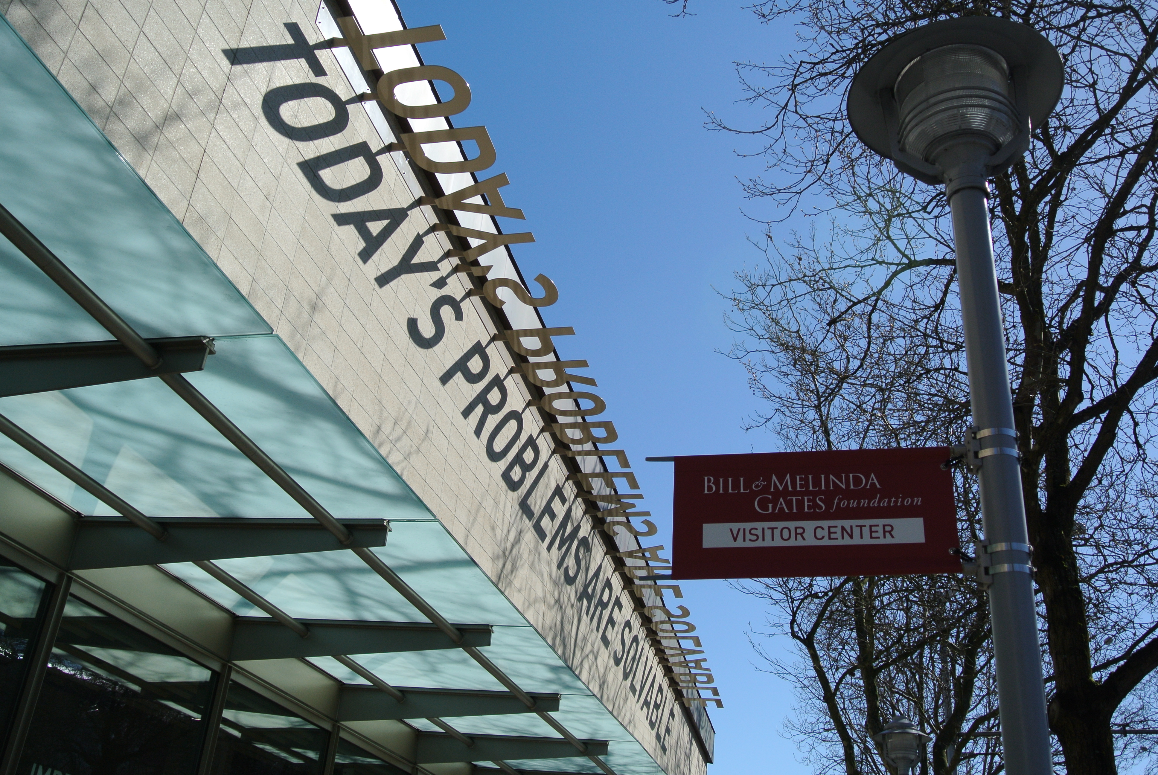 Visitor center of the Bill and Melinda Gates Foundation in Seattle as seen from the street.